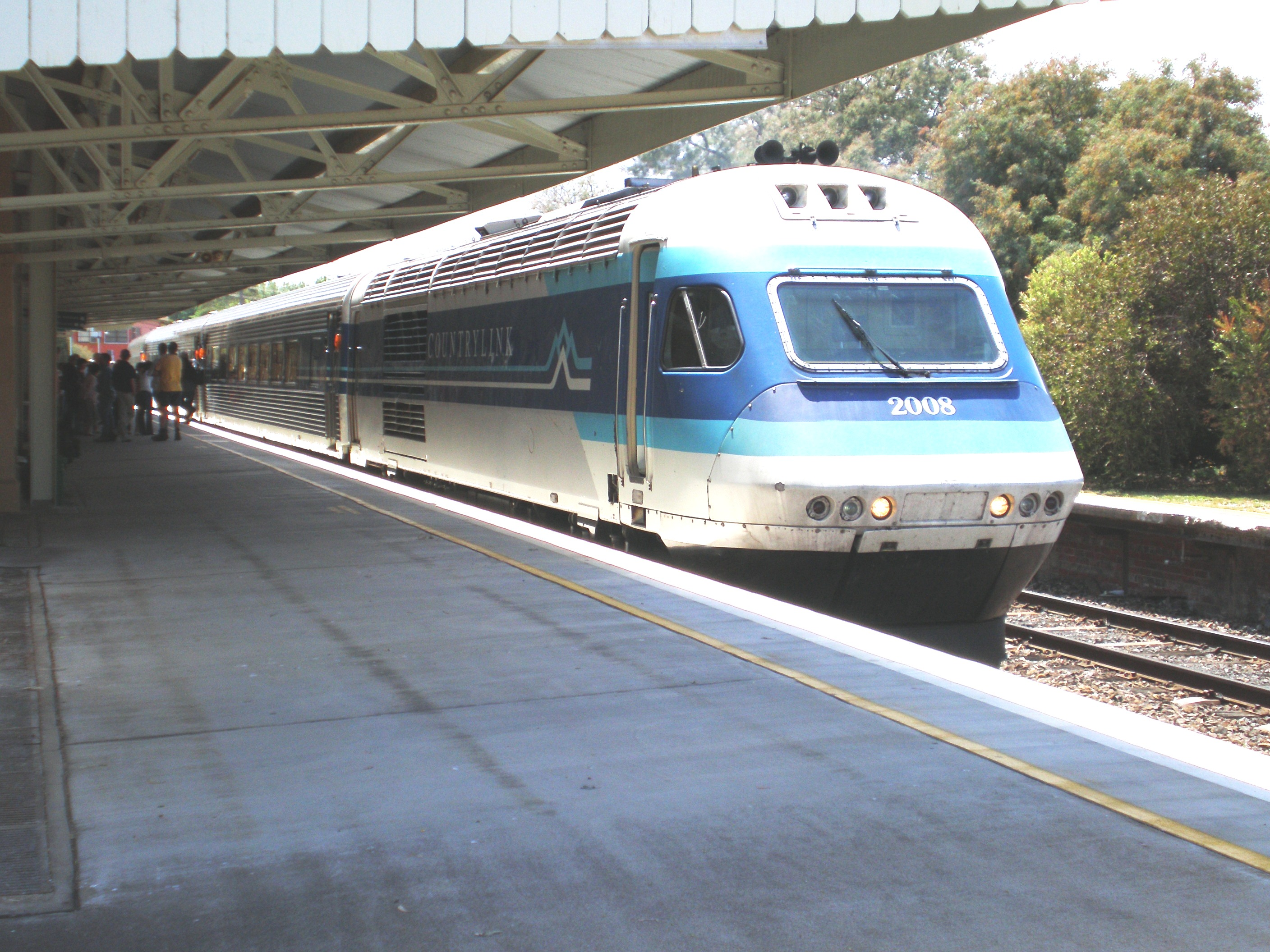 CountryLink Dubbo XPT arriving at Bathurst station from Sydney, bound for Dubbo. This is the Saturday morning service, due to arrive at 10:41am, but arrived ten minutes late. Taken from the western end of the platform. Camera used:Olympus FE190